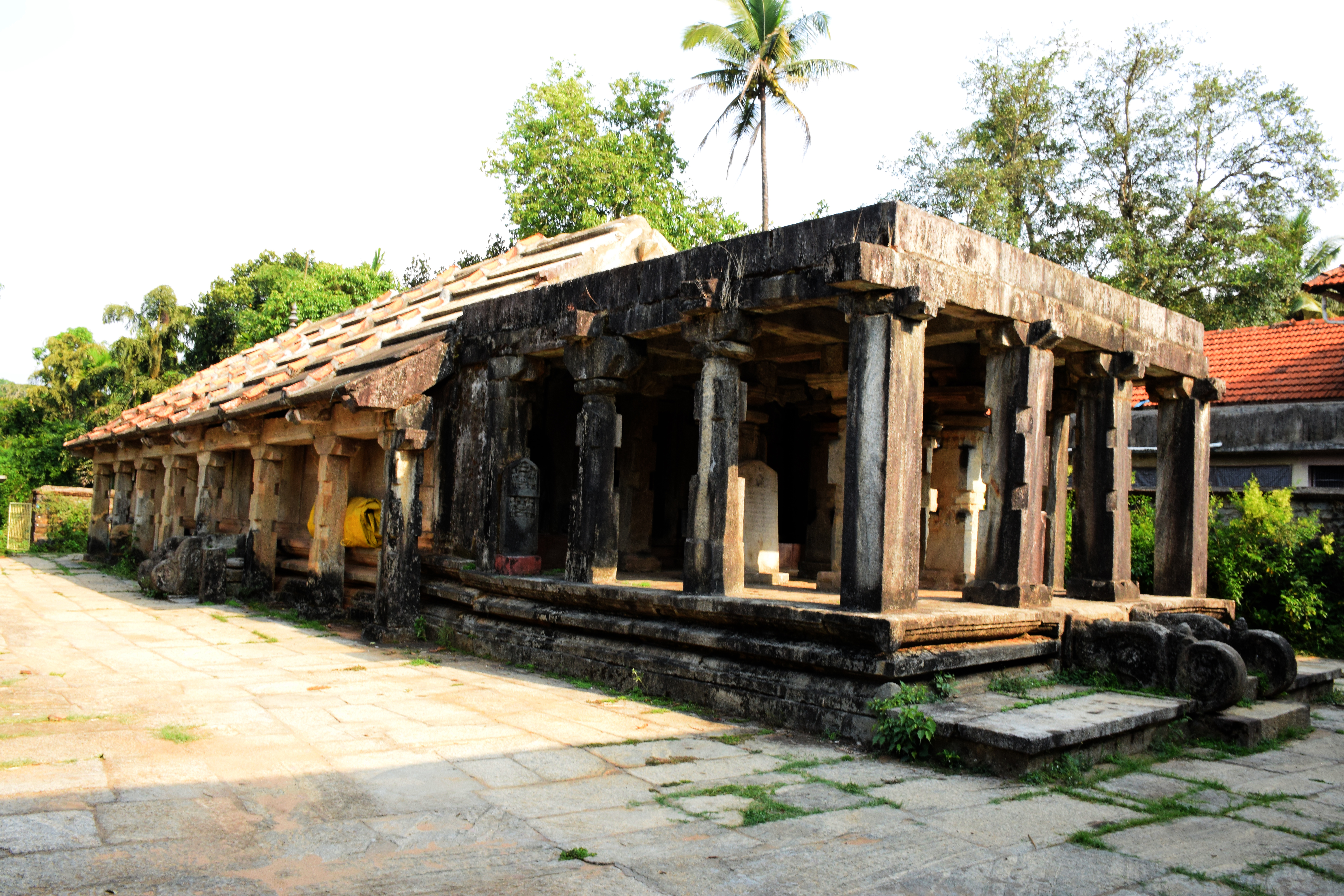 Sri Parshwanath Swamy Basadi, Sringeri